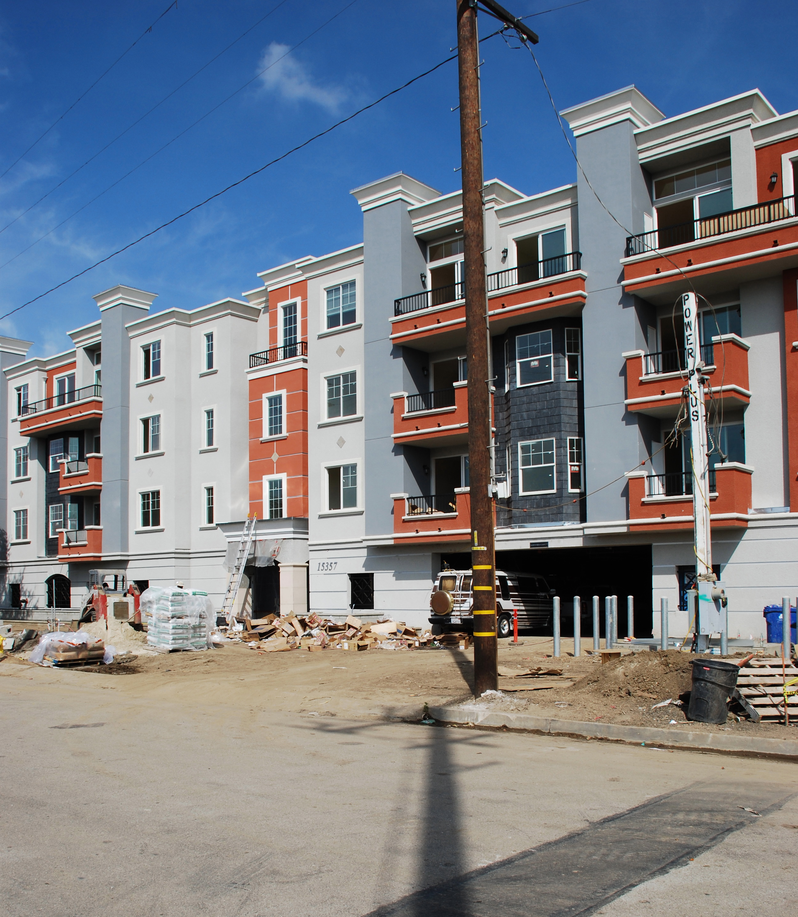 Los Angeles Historic-Cultural Monument No. 184, a twenty-two-foot tall stack of 2,000 pallets with an open room inside, stood here from 1951 to 2006. Constructed by Daniel Van Meter at his San Fernando Valley home. Big Orange Landmarks